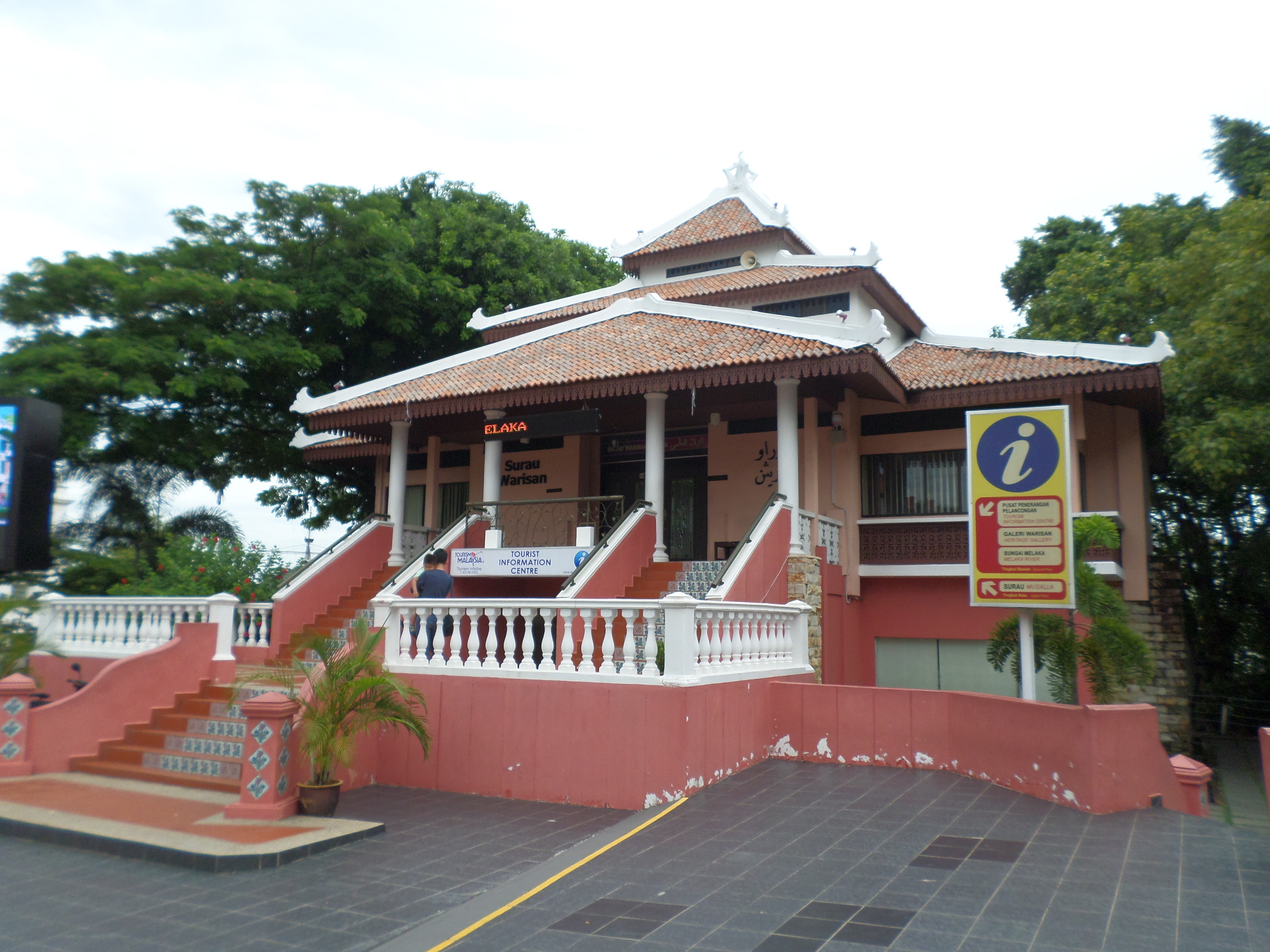 Warisan Dunia Surau, Malacca City, Malacca, Malaysia